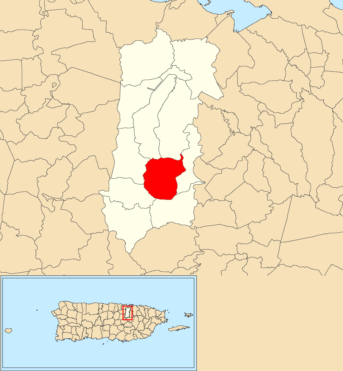 Santa Olaya, Bayamón, Puerto Rico locator map